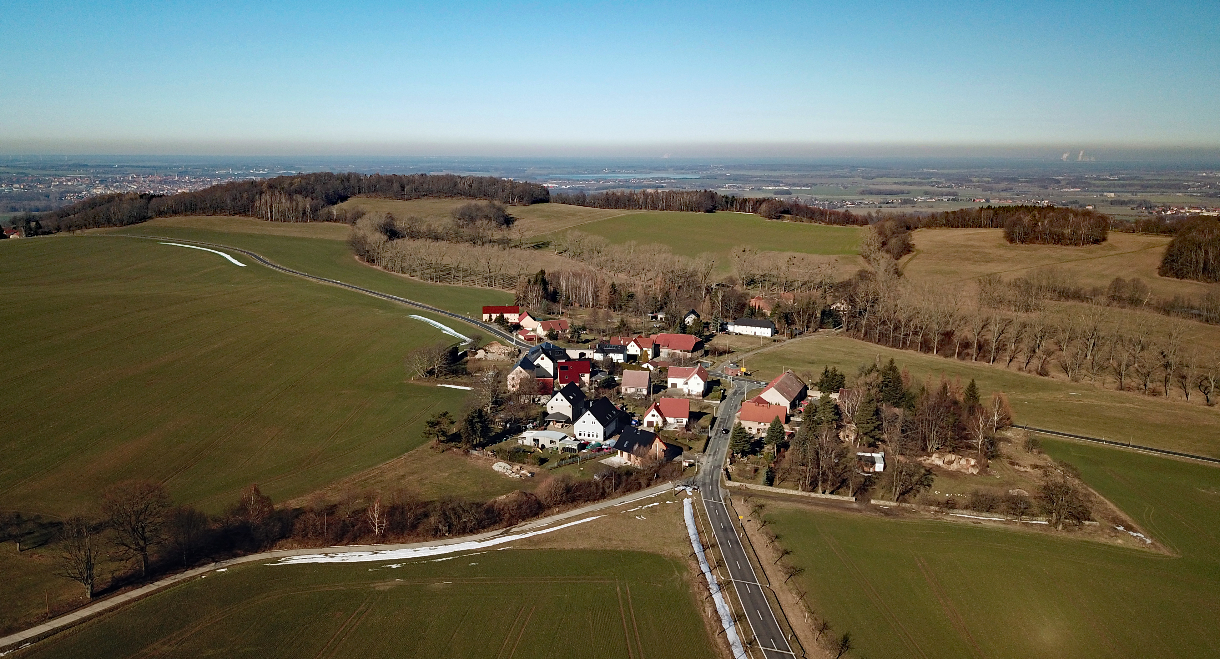 Pielitz, Kubschütz, Saxony, Germany Hornjoserbsce: Powětrowy wobraz Splóska